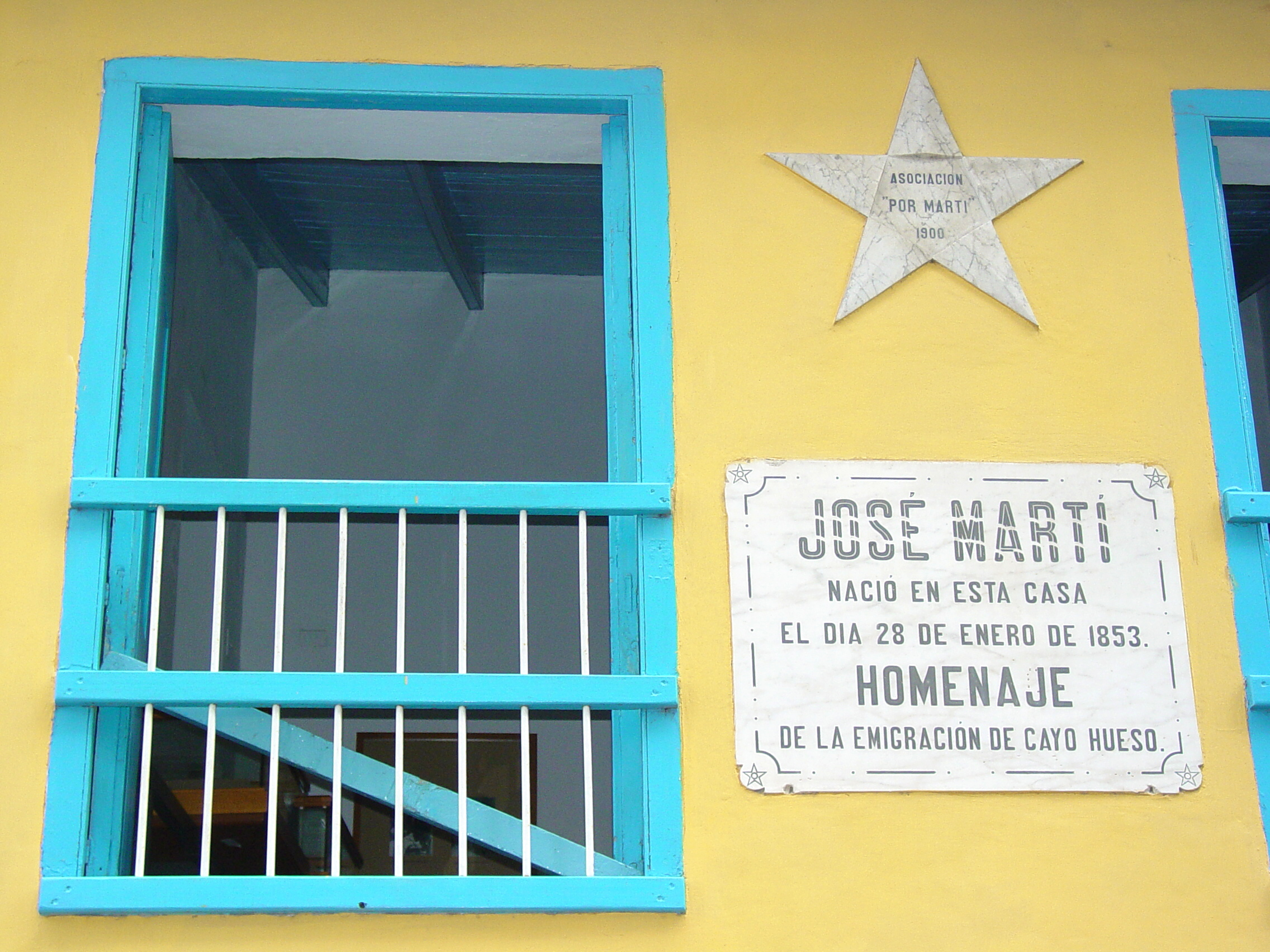 Facade of house of Jose Marti, Habana Vieja, Havana. December 2006.